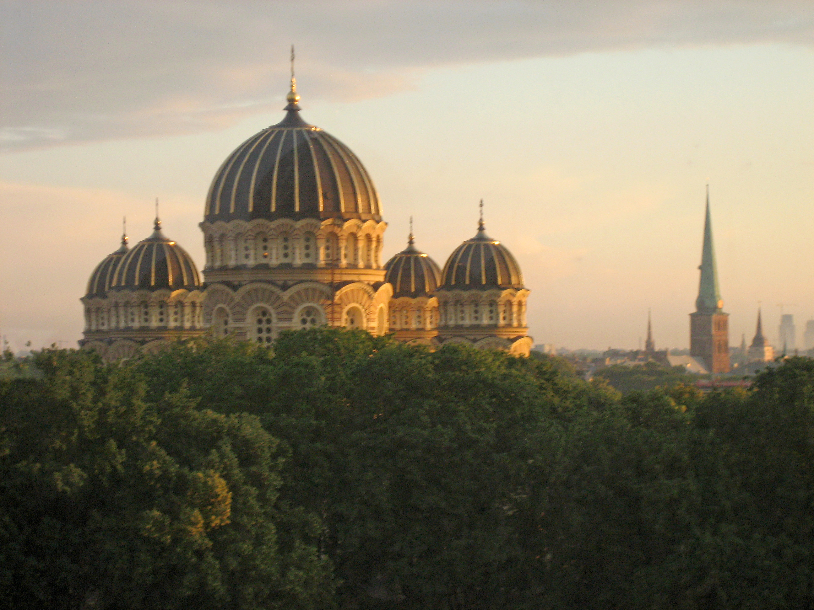 Orthodox Cathedral in Riga